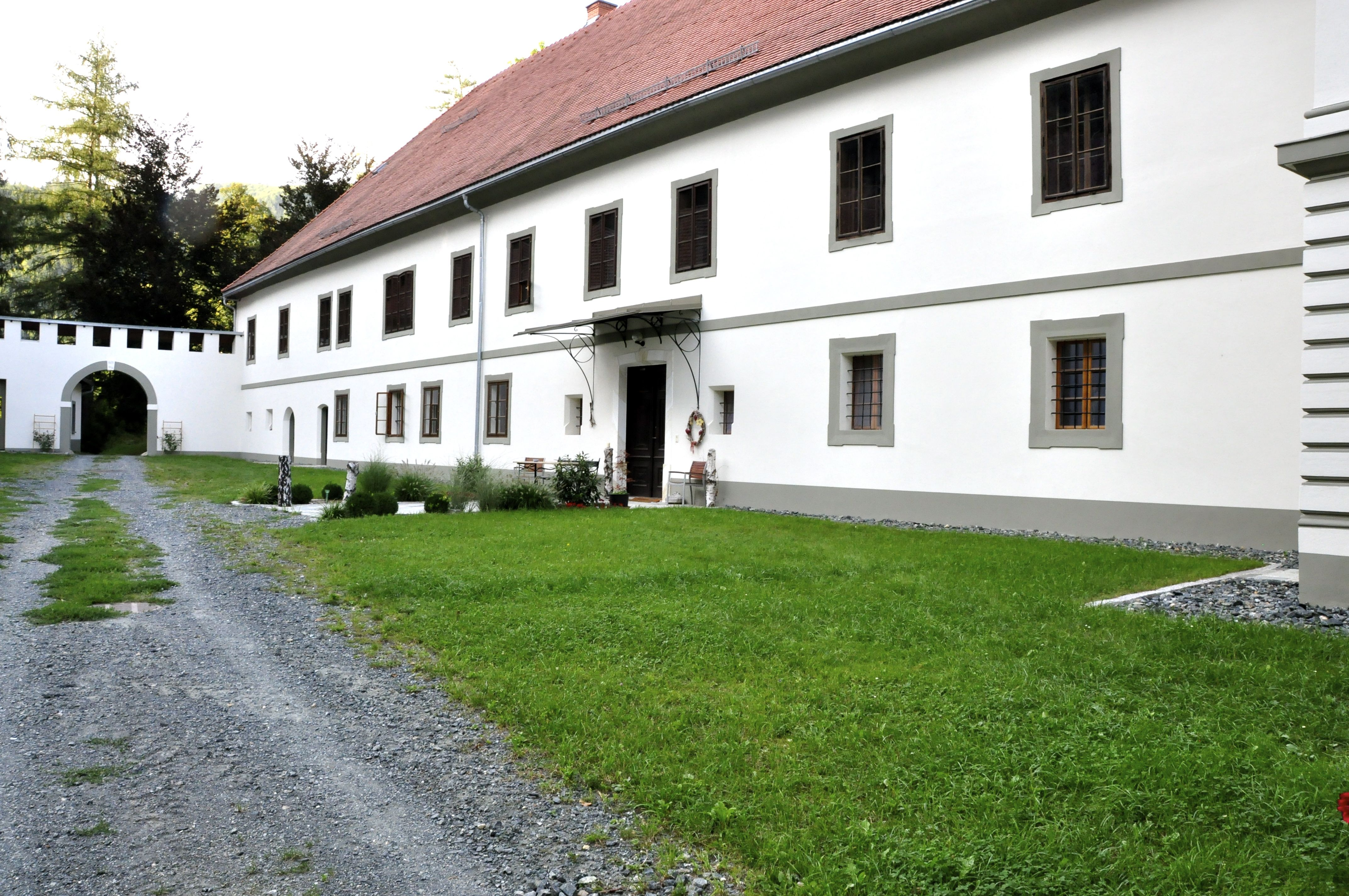 Castle Obertrixen, municipality Voelkermarkt, district Voelkermarkt, Carinthia / Austria / EU